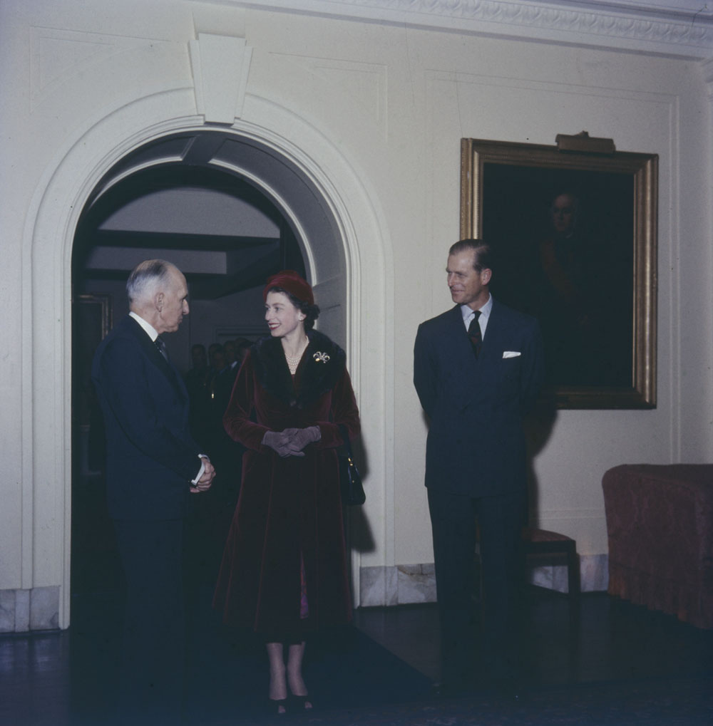 Queen Elizabeth II and Prince Philip with Governor General Vincent Massey at Rideau Hall